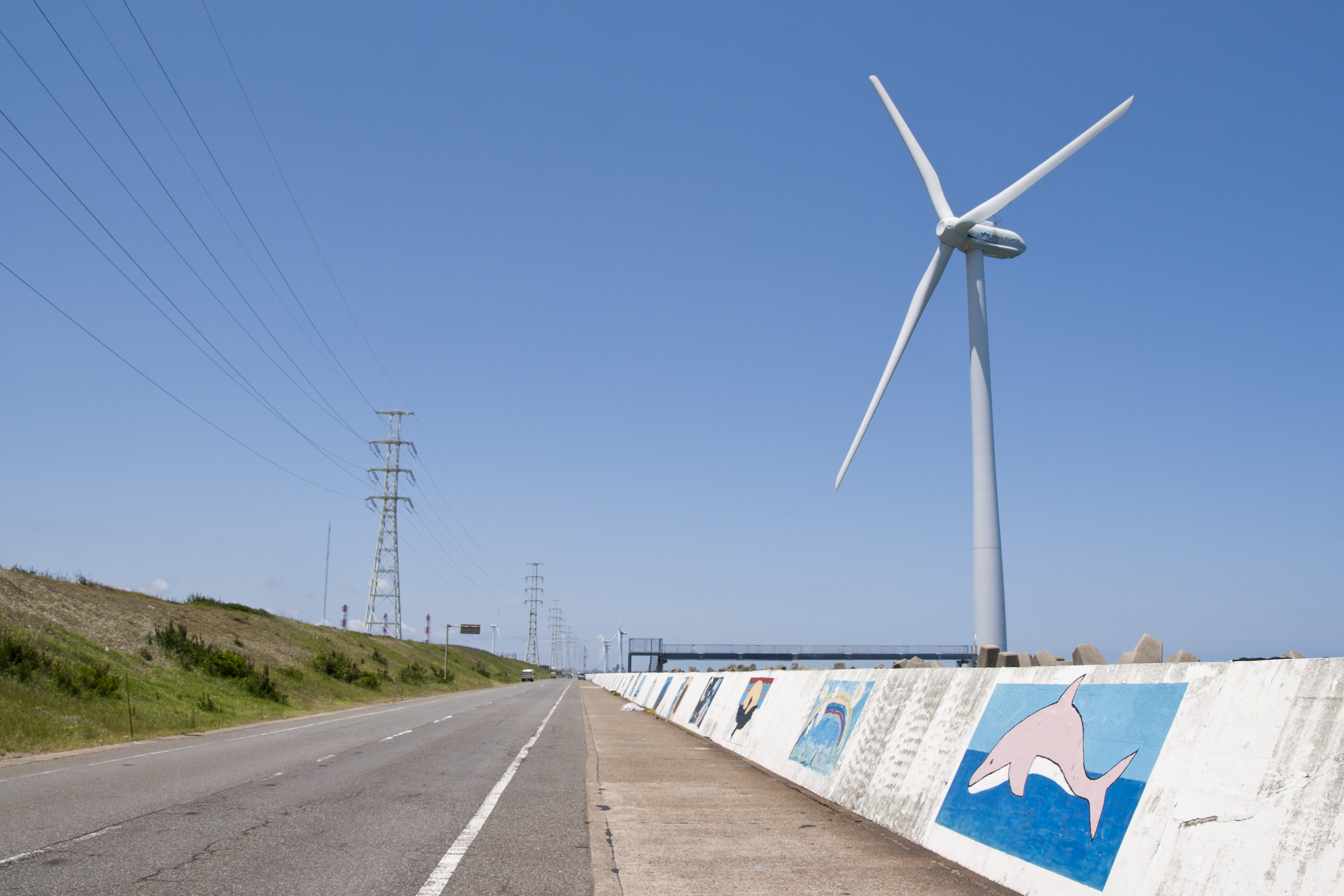 Wind power stations(Wind Power Kamisu), Kamisu City, Ibaraki Pref., Japan